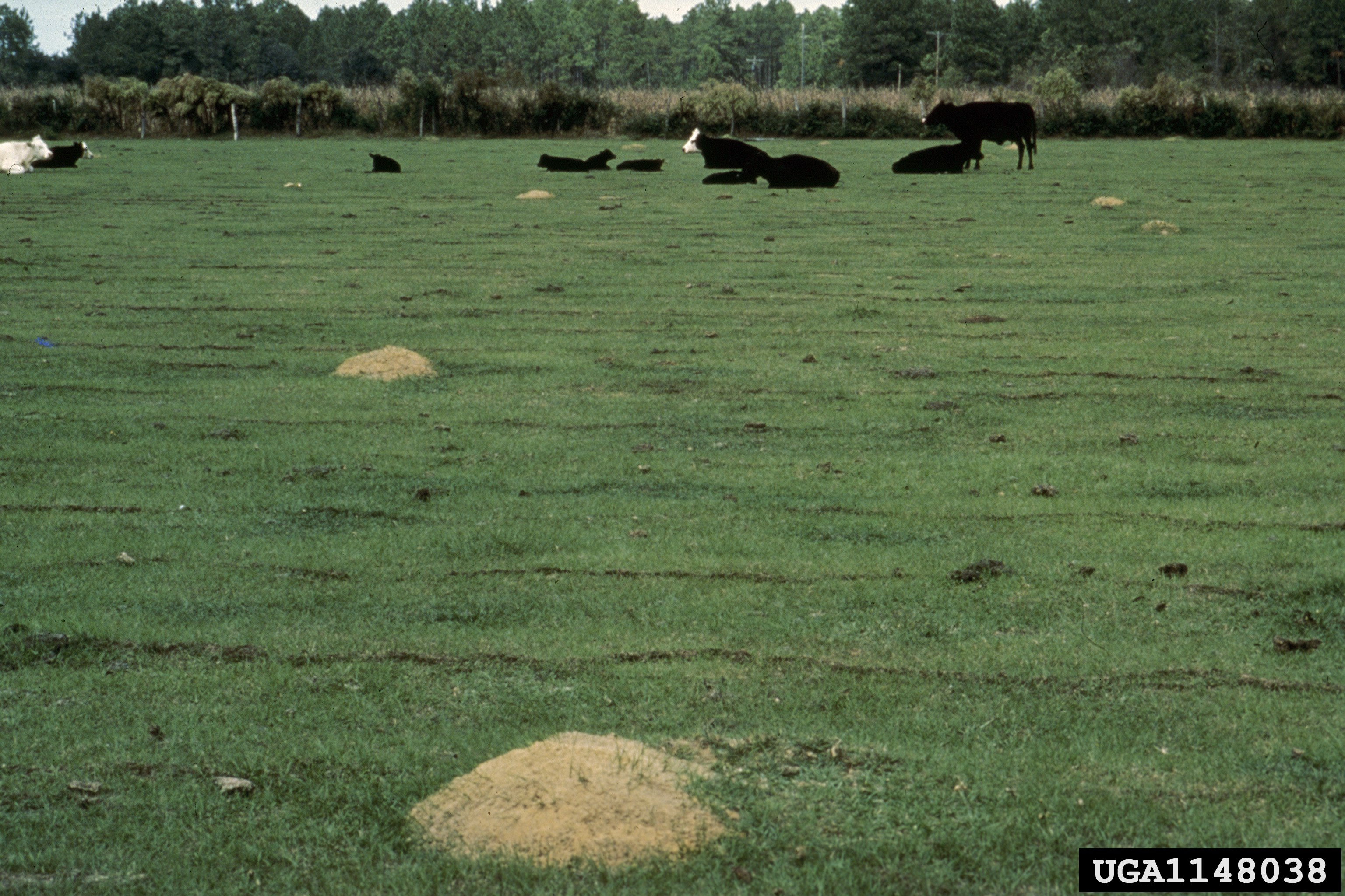 Mounds with cows grazing